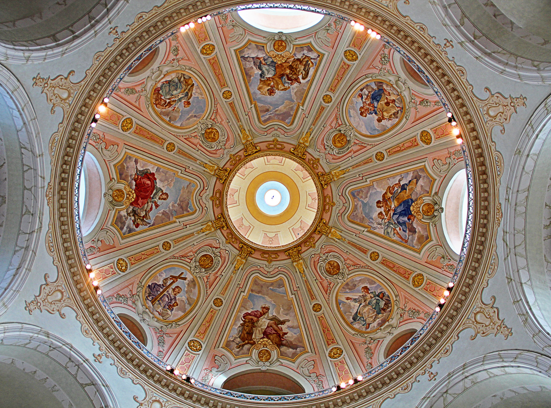 Die Kuppeldecke in der Frauenkirche, Dresden